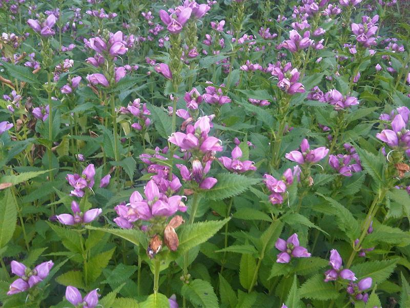 Chelone obliqua flowers at the WWT London Wetland Centre, England.